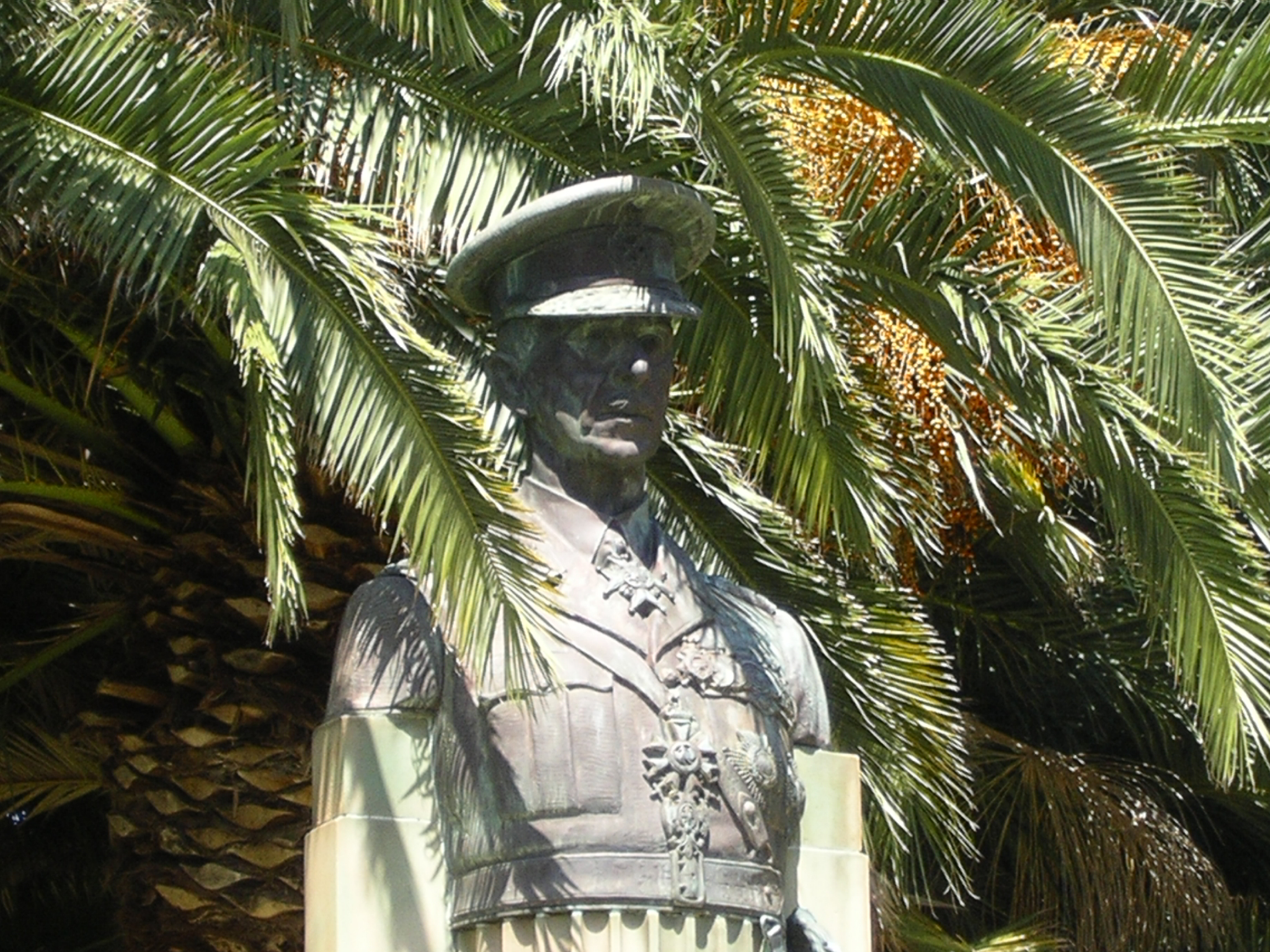 Public art- Talbot Hobbs, Perth